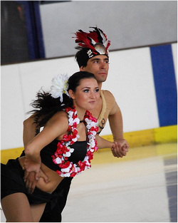 Olga Orlova during the French Masters in 2009, Original Dance (copyright Florence Lécrivain)